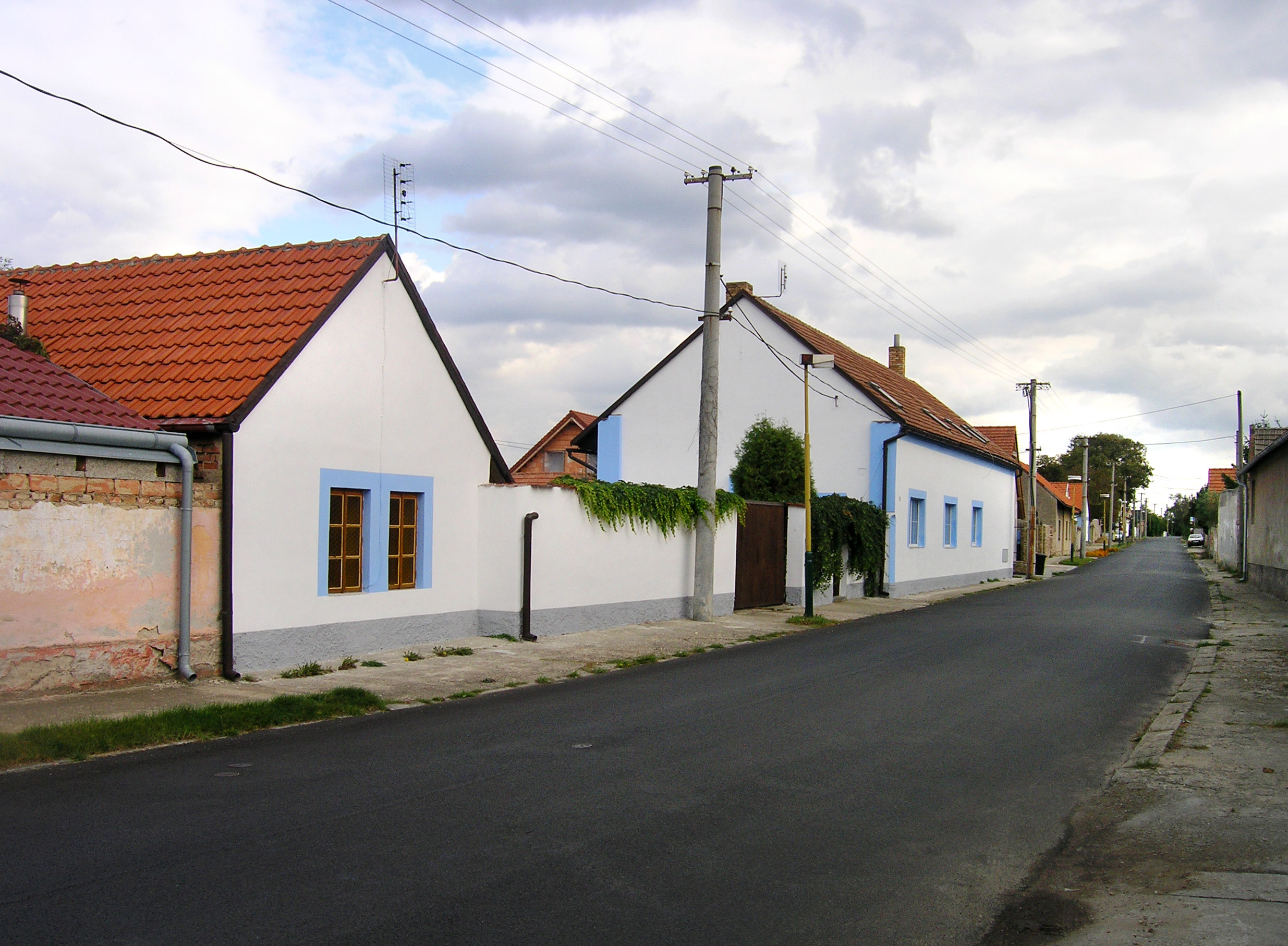 West part of Martinov, part of Záryby village, Czech Republic